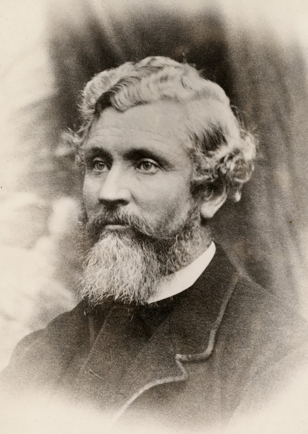 Portrait of John McKinlay.